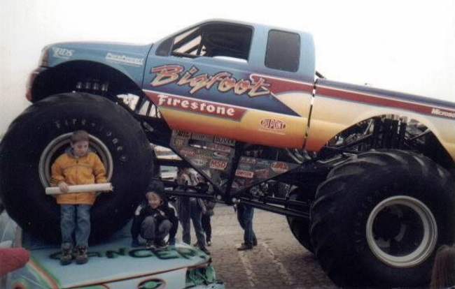 Bigfoot 10, in South St. Louis County, at a fundraising event for cancer research.